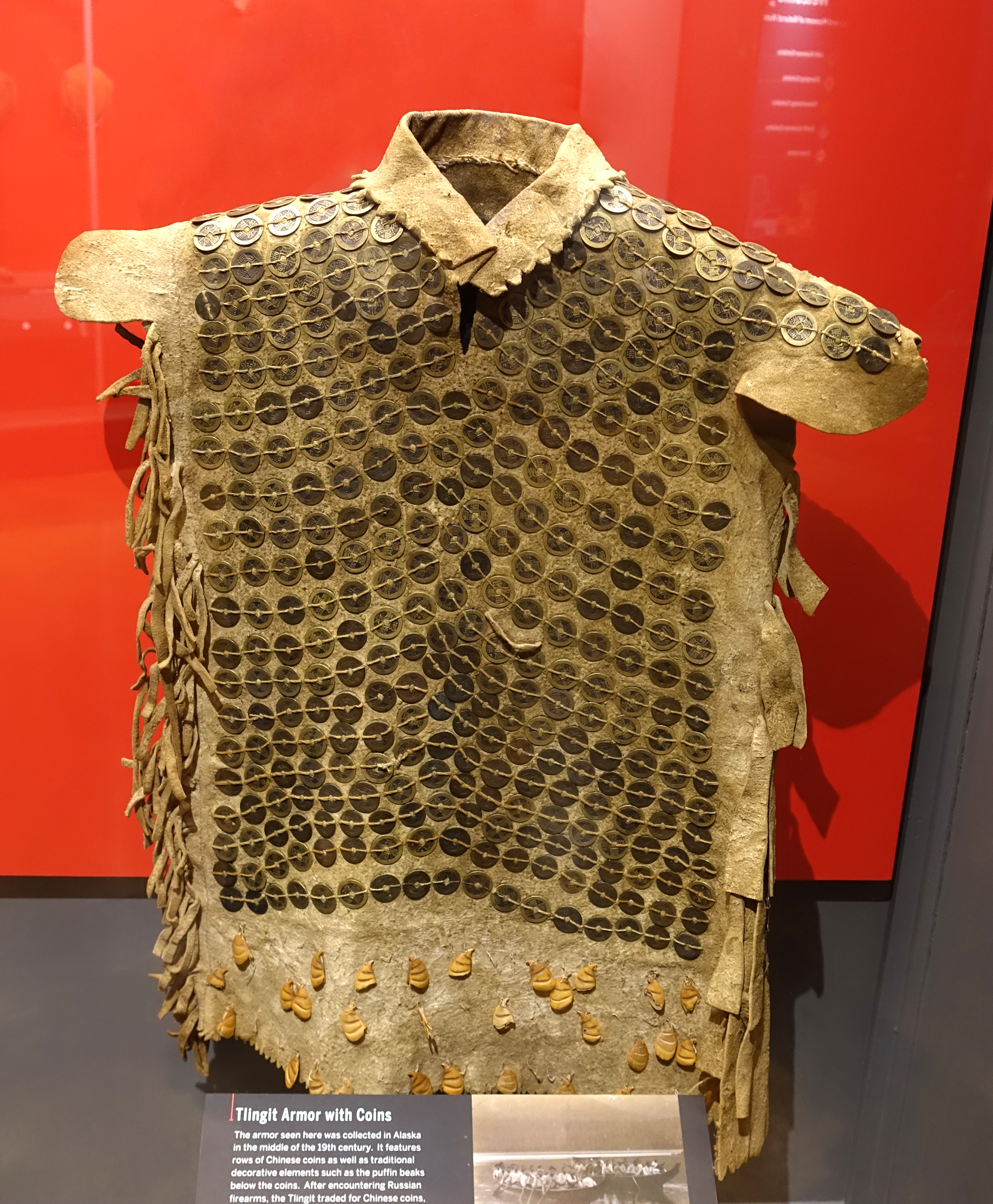 Exhibit from the Native American Collection, Peabody Museum, Harvard University, Cambridge, Massachusetts, USA. Photography was permitted without restriction; exhibit is old enough so that it is in the public domain.